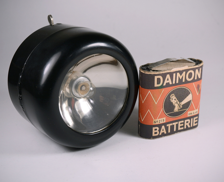 Daimon 3R12 size 4.5 Volt battery